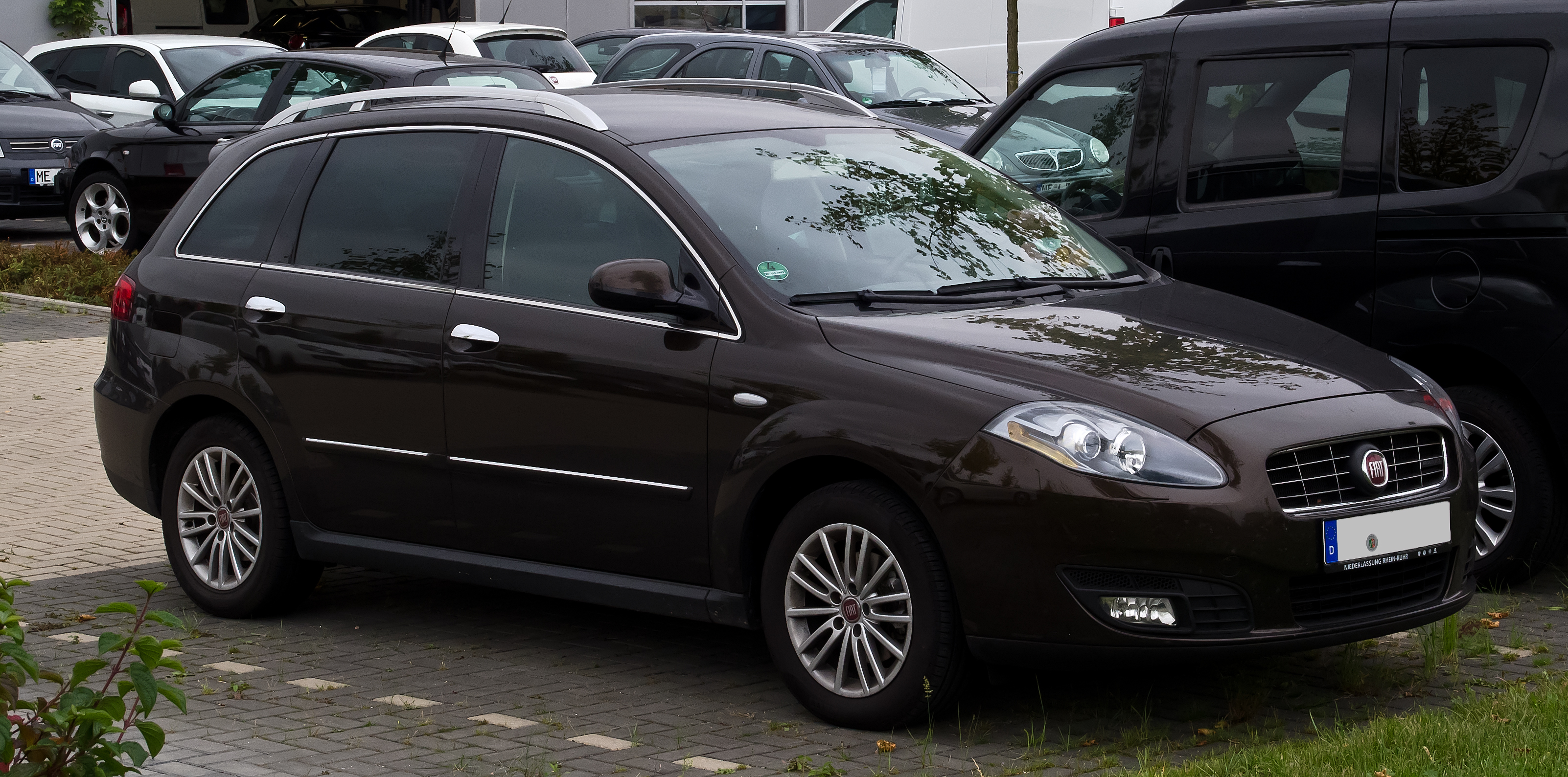 Fiat Croma (II, Facelift)